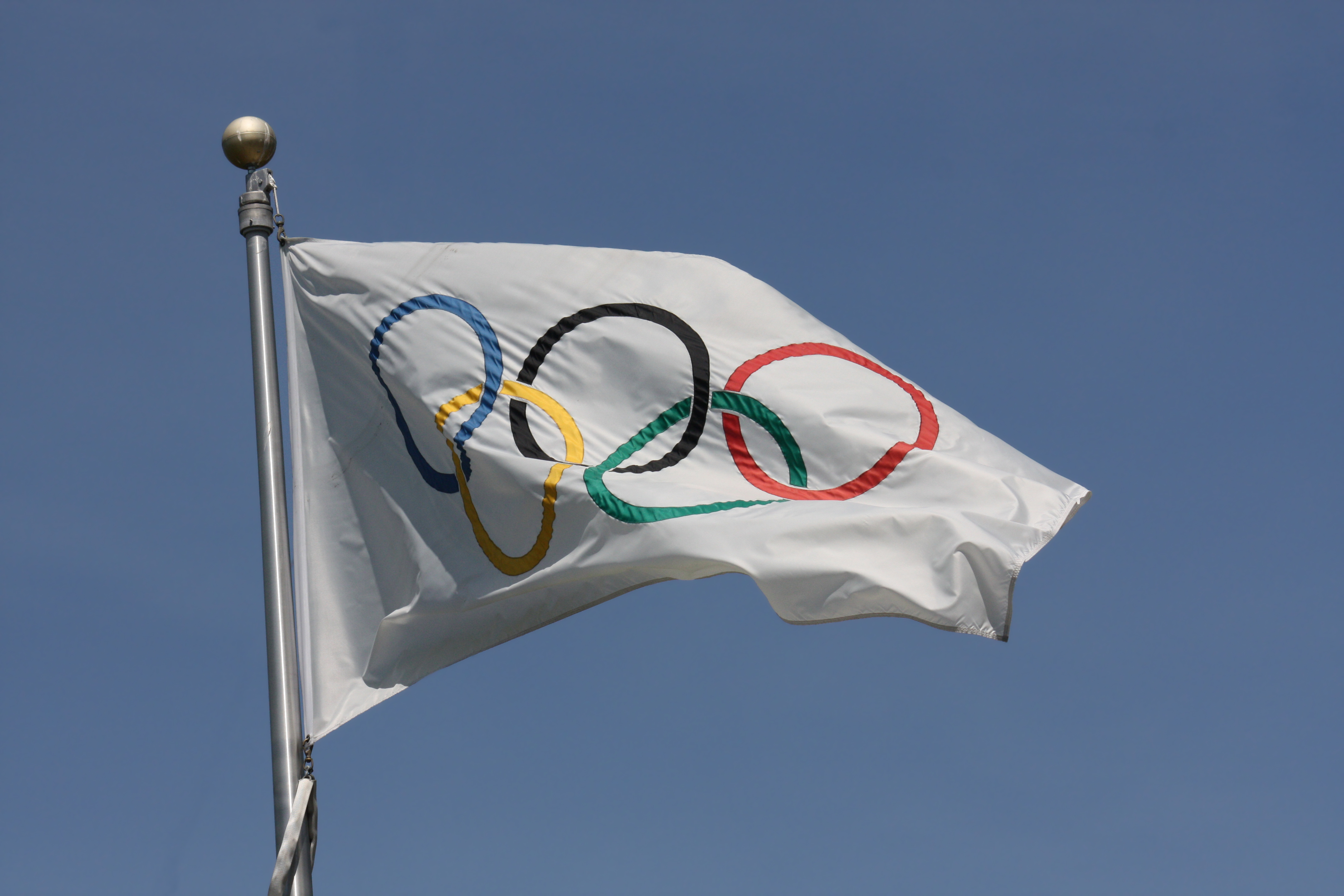 Flying outside the Parliament Building of British Columbia, Victoria, B.C.